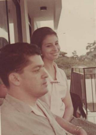 Personal picture of Fernando Bermudez Arias and Maria Cristina Caravia de Bermúdez taken in 1963